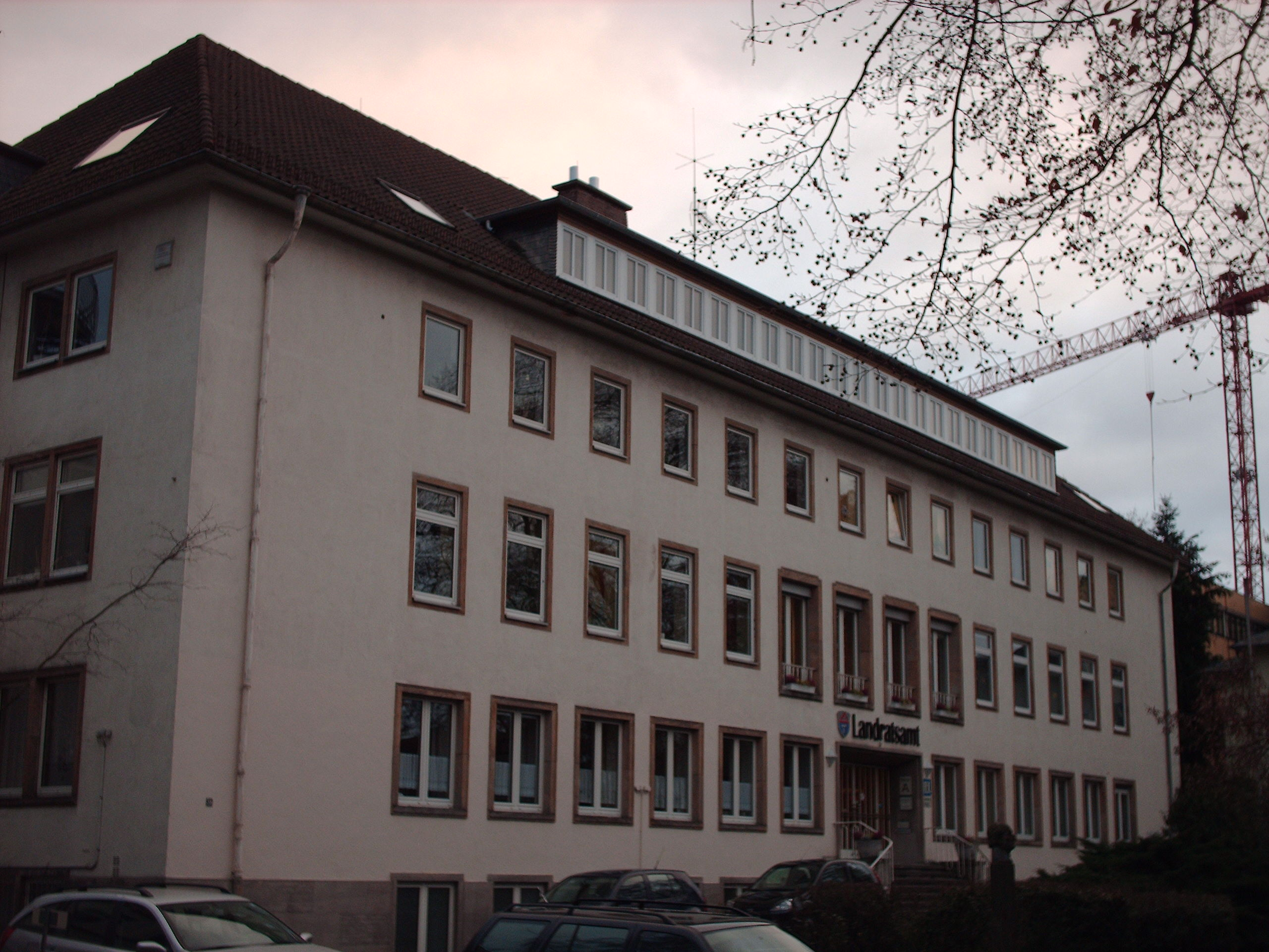 District Office, Gießen, Germany check usage